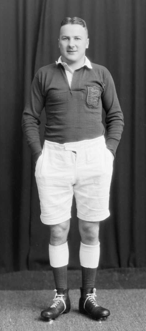 Jack Bassett, member of the British Lions rugby union team